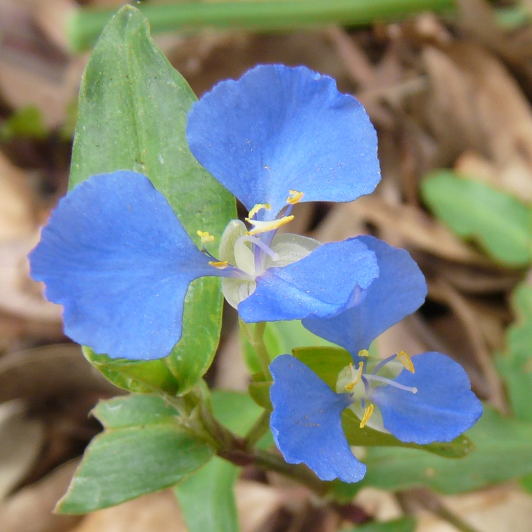 Flower of Commelina cyanea